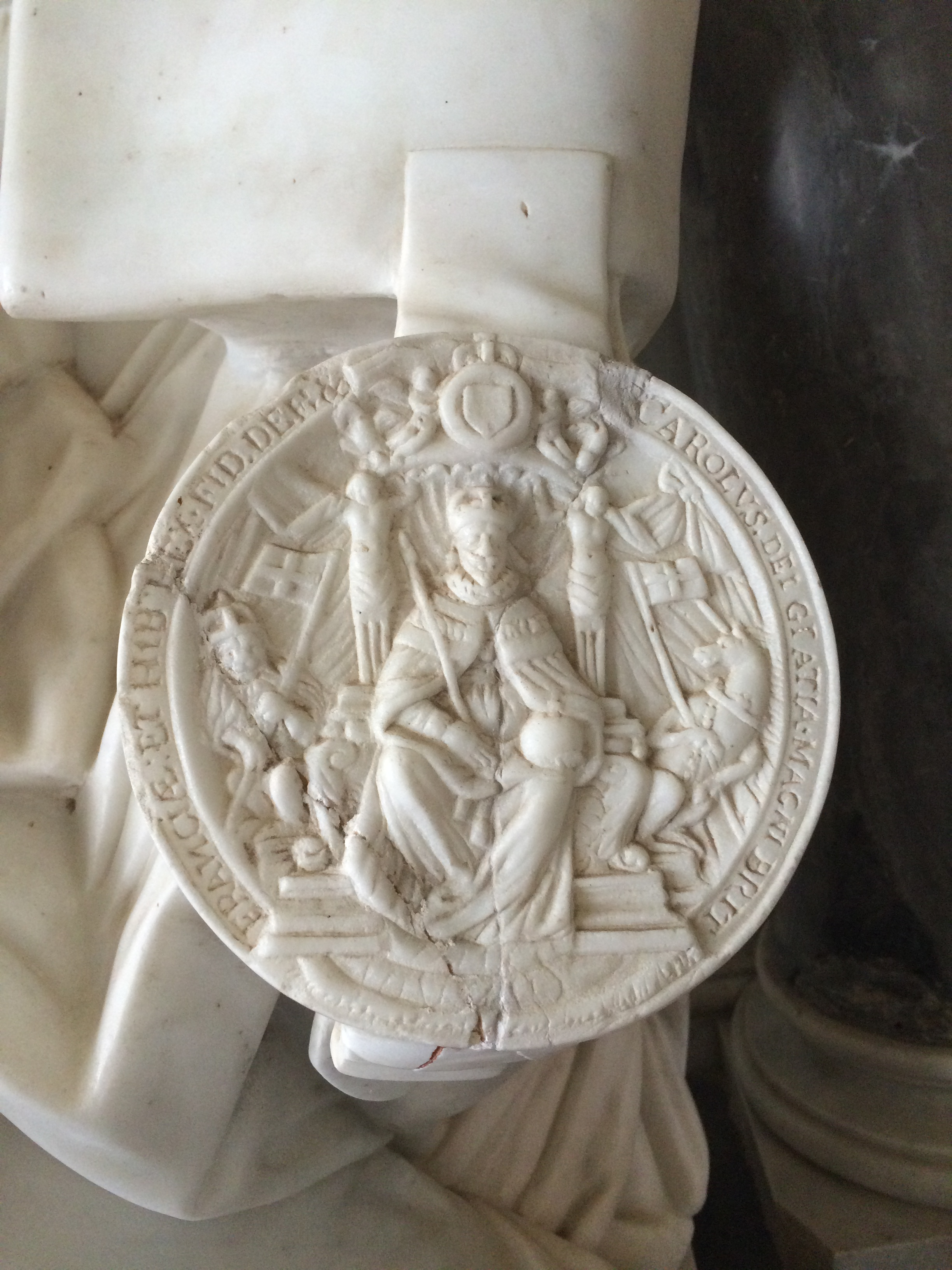 Great Seal of King Charles I, St Mary Magdalene, Croome, Worcs: Monument to Thomas Coventry, 1st Baron Coventry (1578–1640), Lord Keeper of the Great Seal.